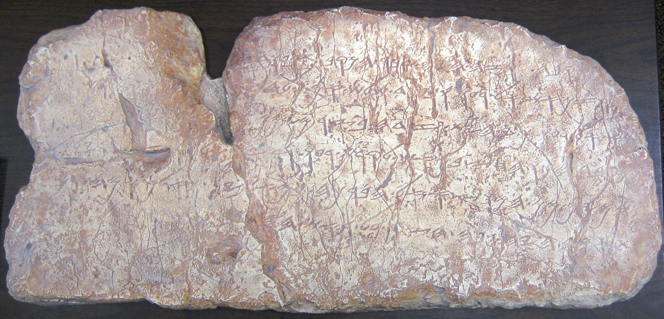 photo of a replica of the Siloam inscription.